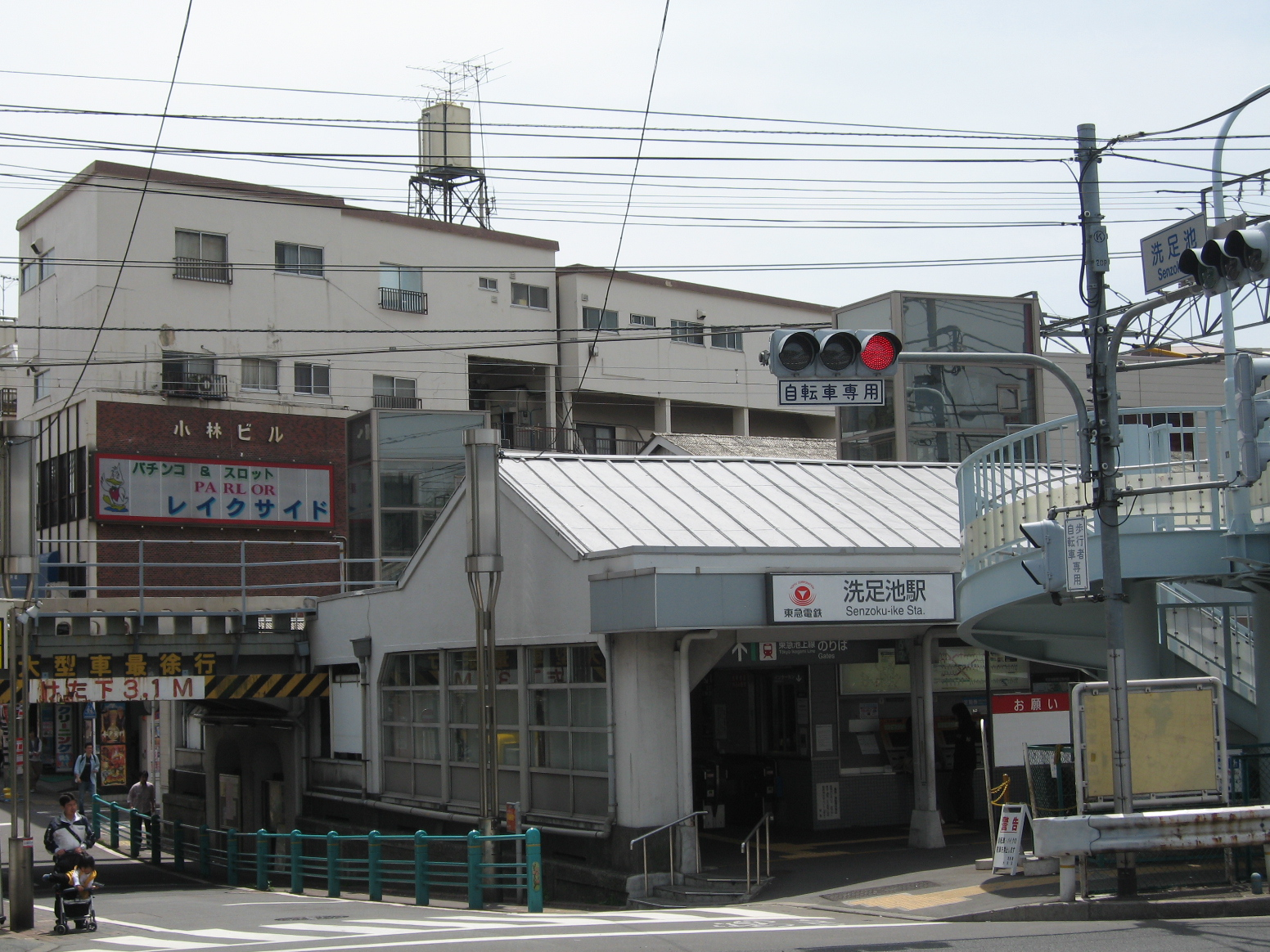 Senzoku-ike Station, Tōkyū Ikegami Line. 1-1-6 Higashi-yukigaya, Ota, Tokyo.